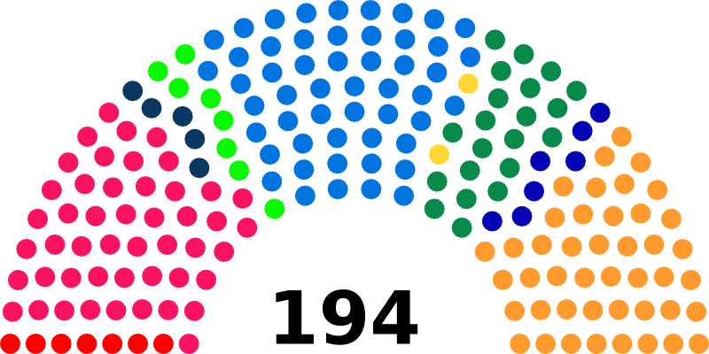 Seats diagramme of Swiss National Council (1947)